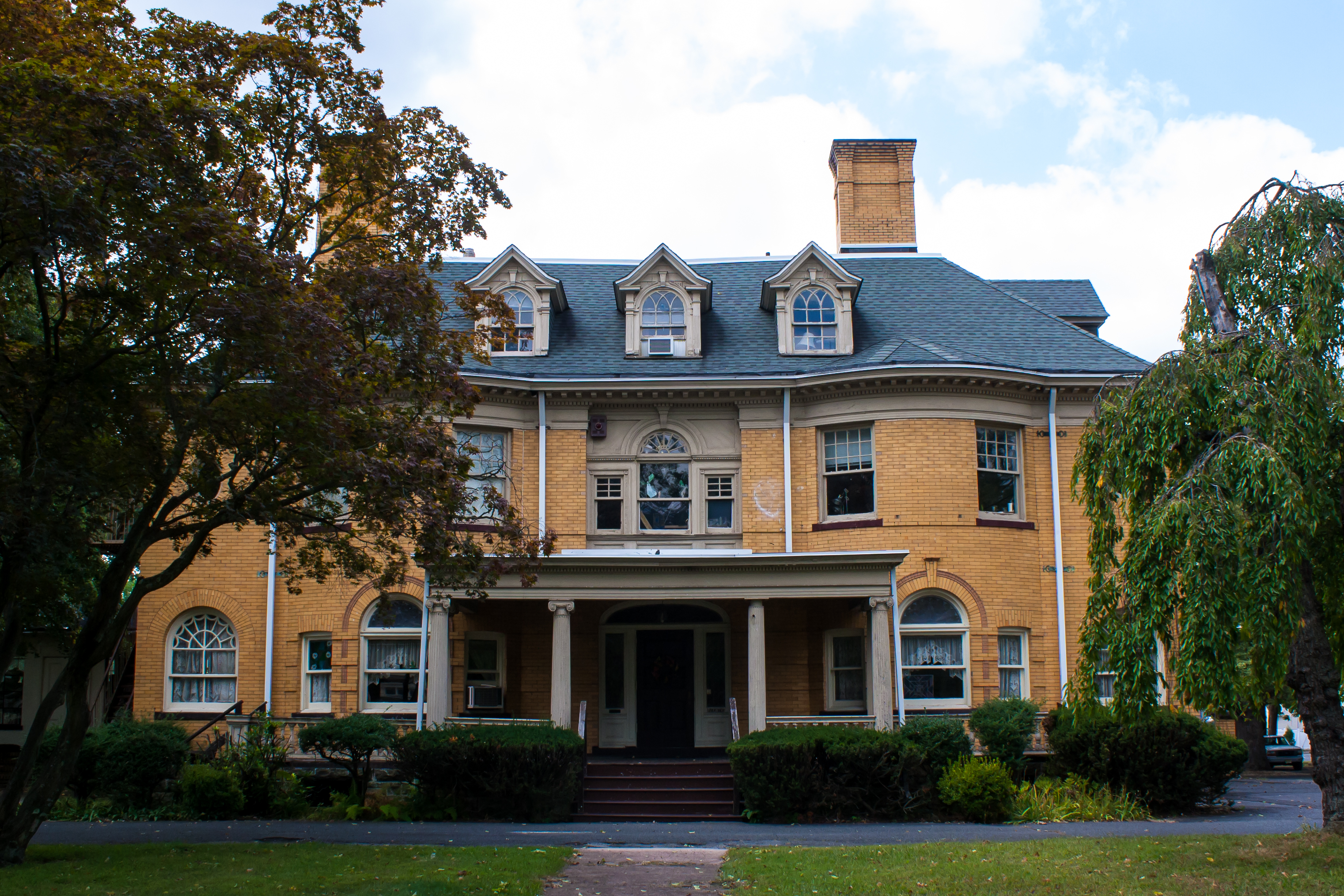 George A. Strong House, 1030 Central Ave. Plainfield